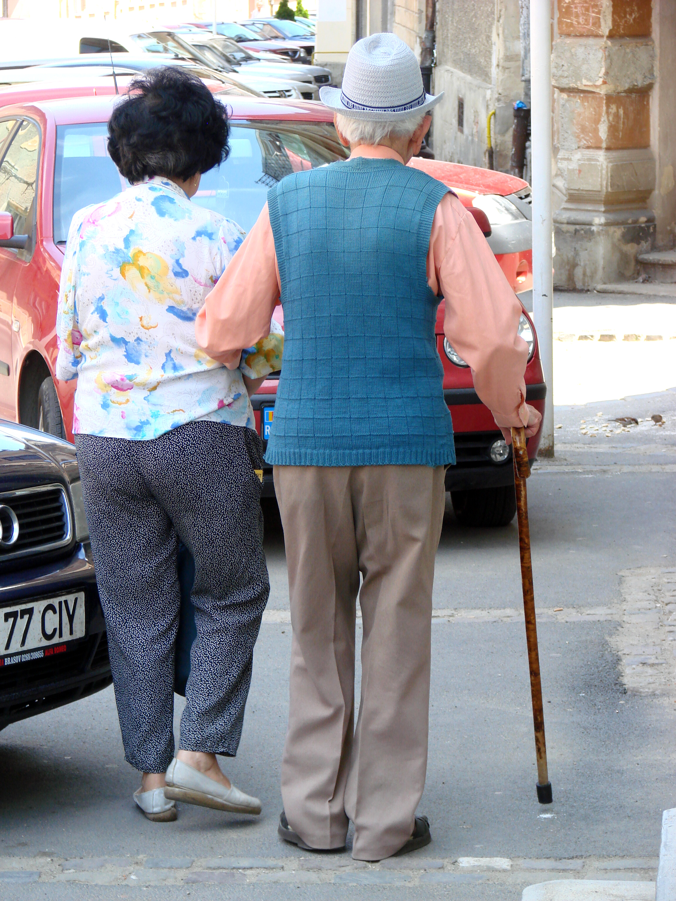 An elderly couple walks on the street, Brasov, Romania. June 2007.